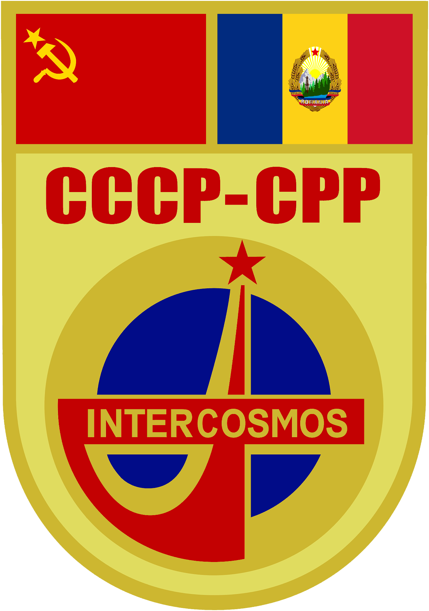 Soyuz 40 patch